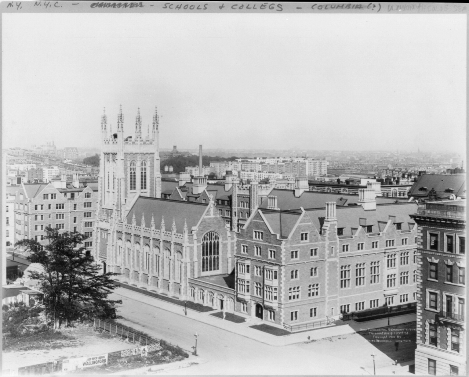 Union Theological Seminary, Claremont Ave. & 122nd St., New York City, in 1910.